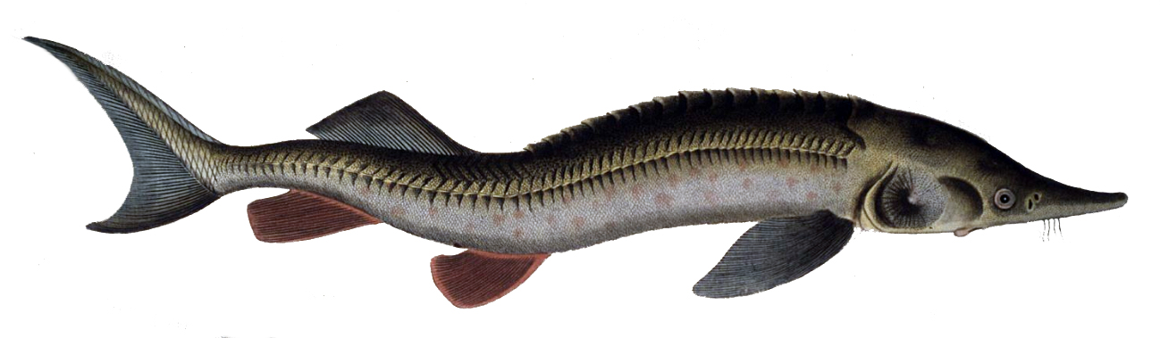 Acipenser ruthenus